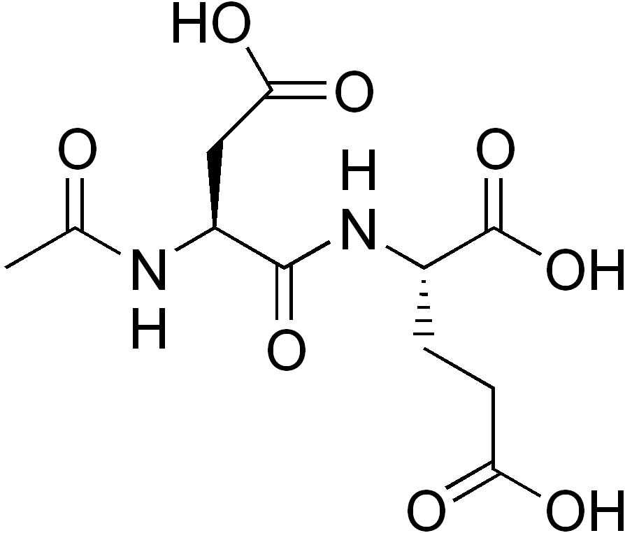 chemical structure of N-acetylaspartylglutamic acid (N-acetylaspartylglutamate, NAAG)